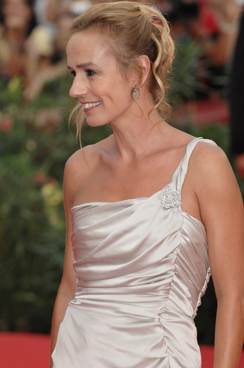 Actress Sandrine Bonnaire attends the Closing Ceremony of the 66th Venice Film Festival.